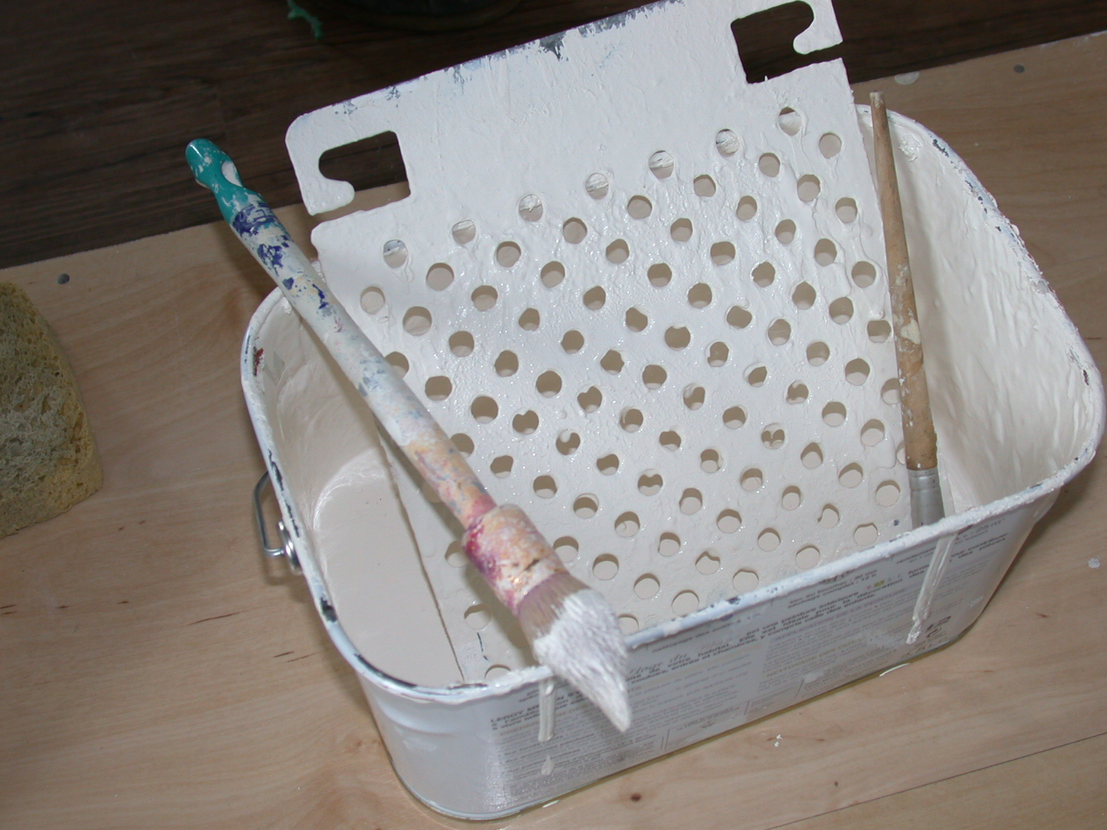 Painting stuff (?)